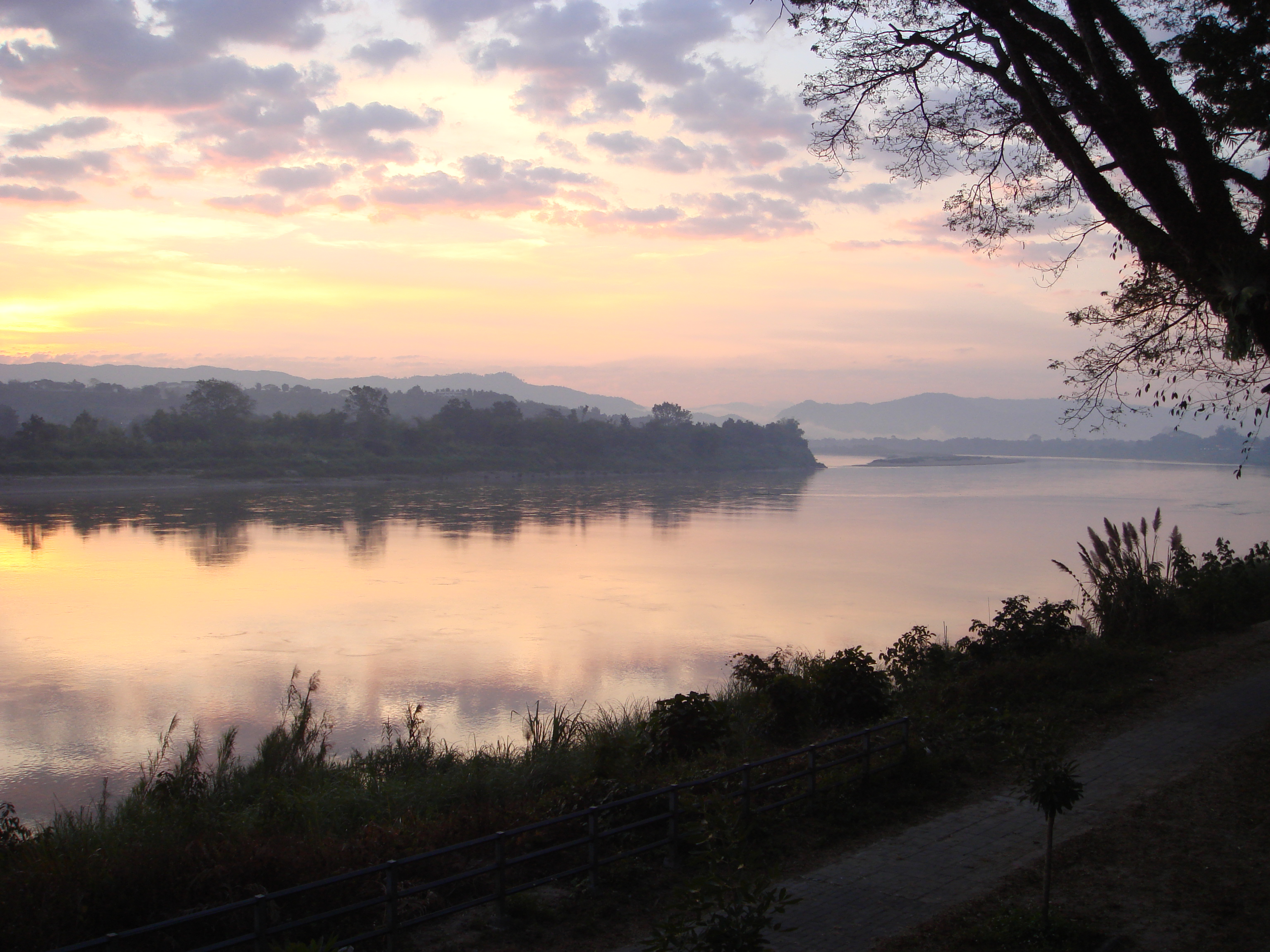 Dawn over Mekong (Chiang Khong, Thailand).